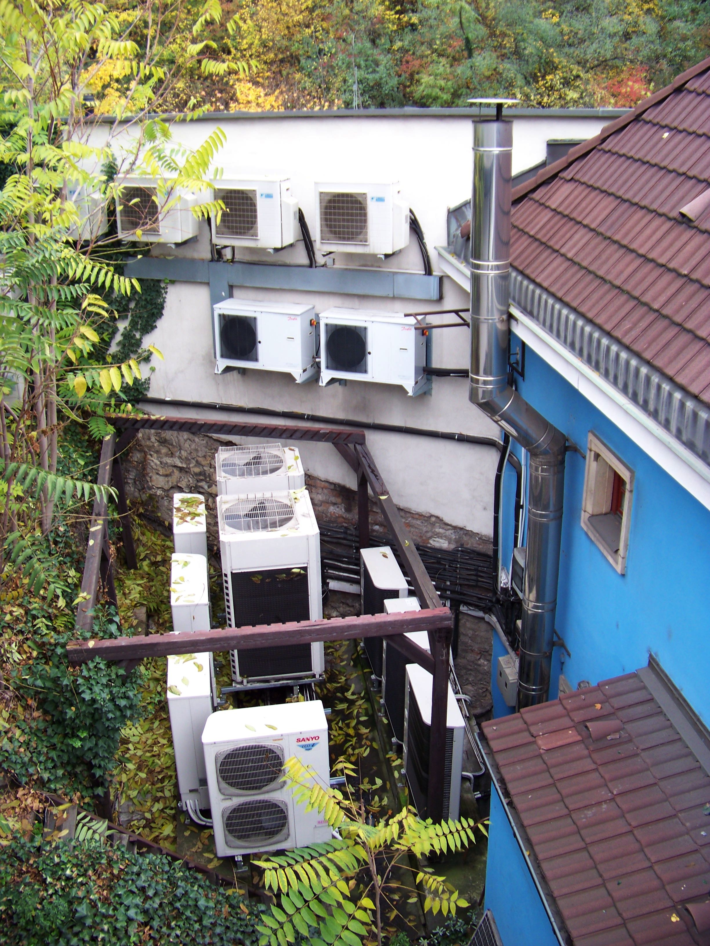 Prague-Malá Strana, the Czech Republic. Pod Bruskou 141/13 and 144/7, air-handling equipment, seen from Chotkova street.